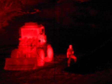 MIRA Thermal Sight (anti-tank weapon MILAN)